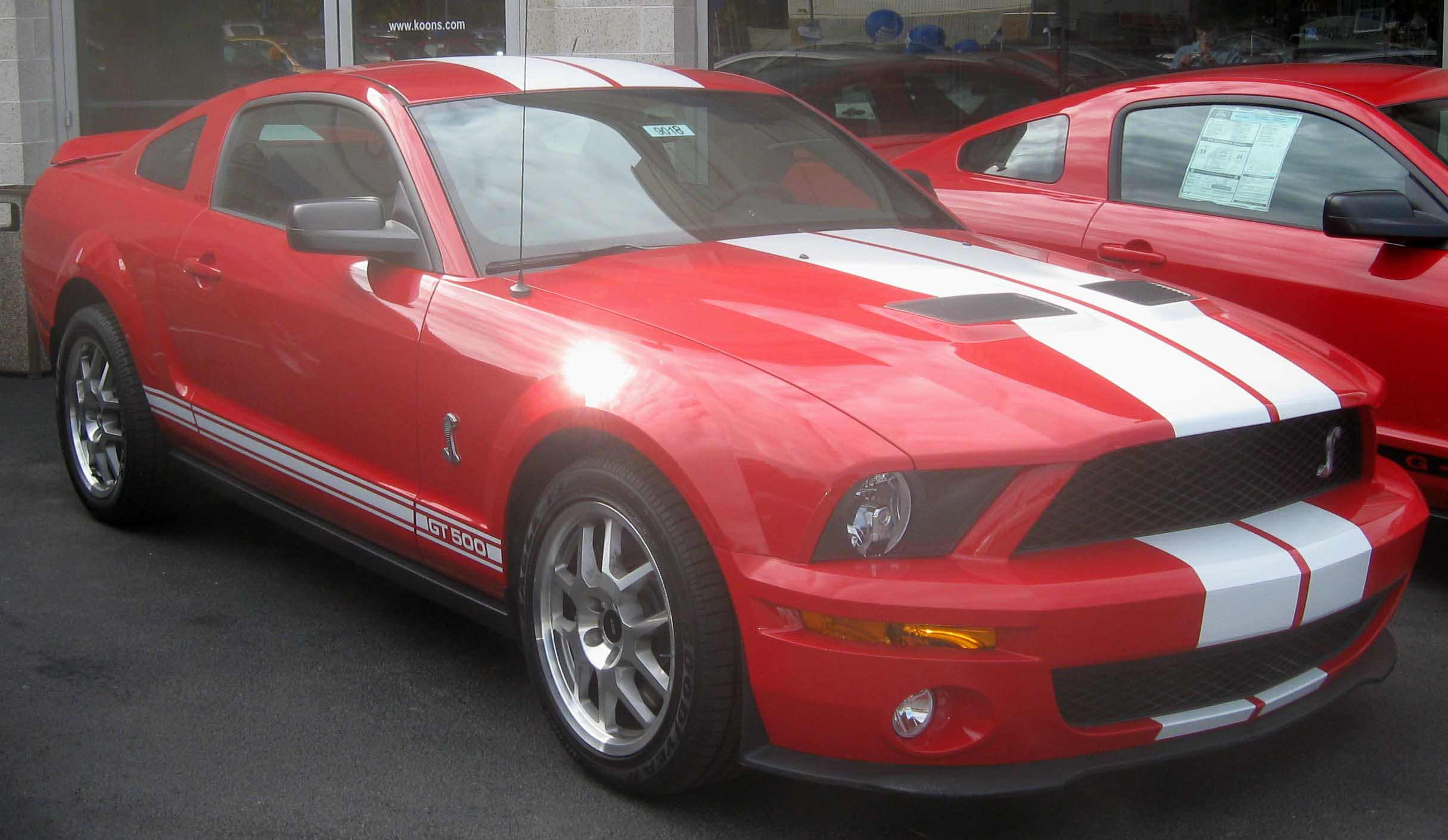 Ford Mustang GT500 photographed in College Park, Maryland, USA.